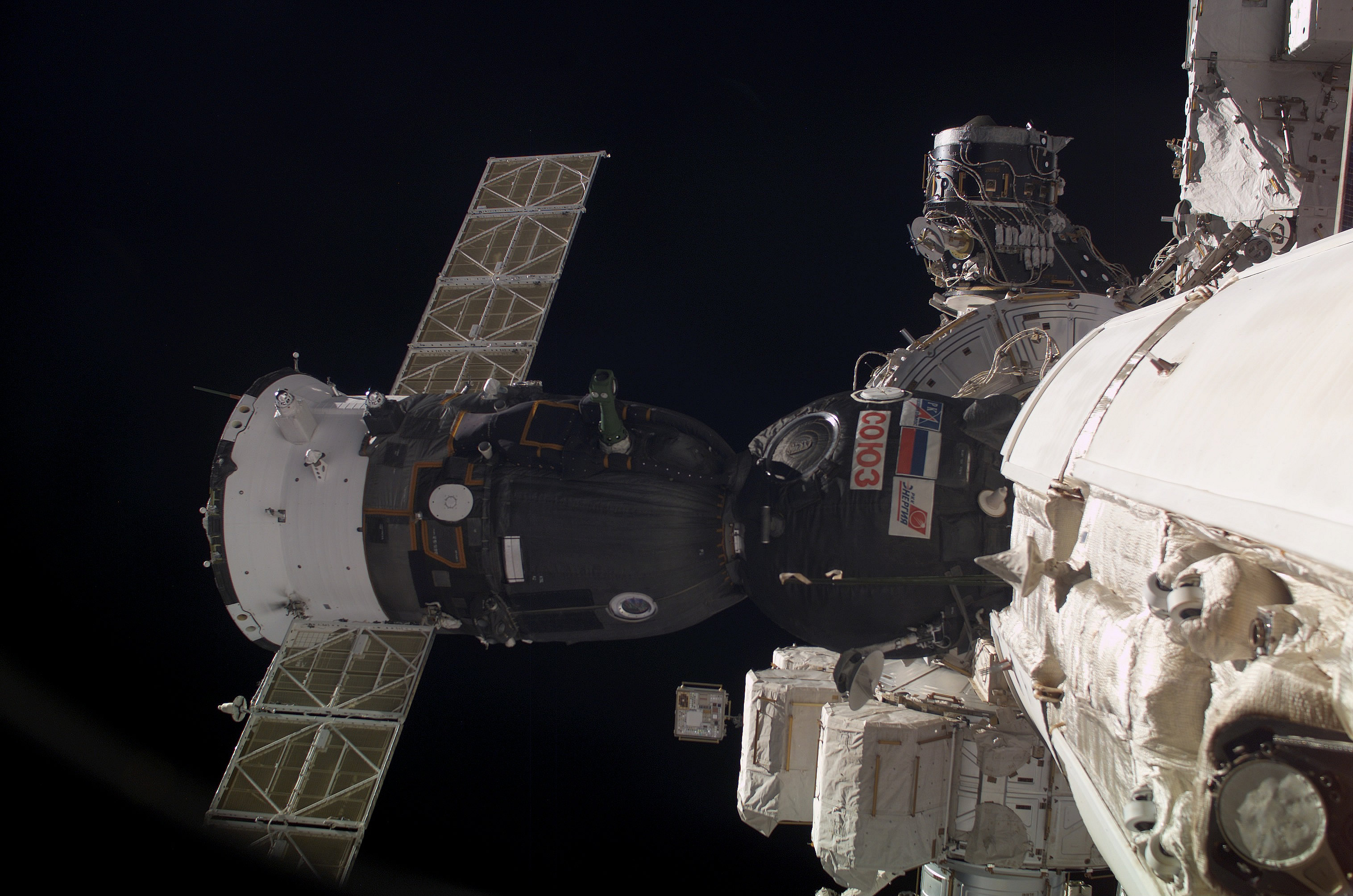 Soyuz TMA-2 docked to ISS during Expedition 7.